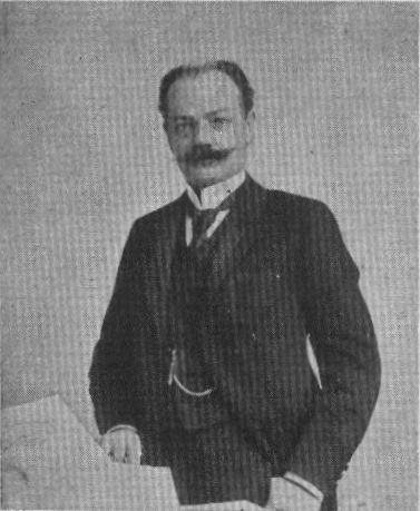 Mieczysław Nartowski (1868-1929)